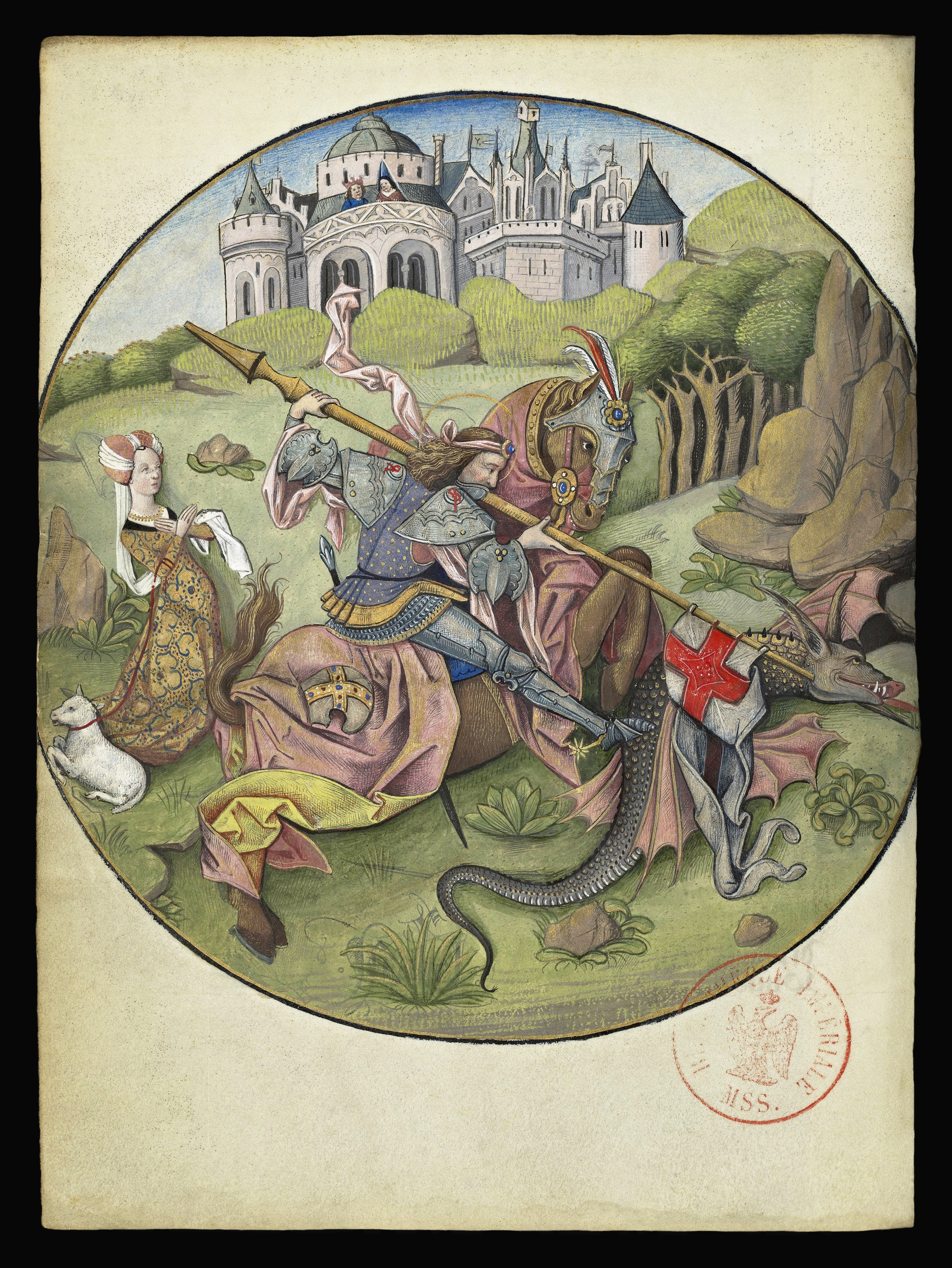 Saint George and the Dragon, coloured engraving, from the Heures de Charles d'Angoulême, f. 116, (15th century)